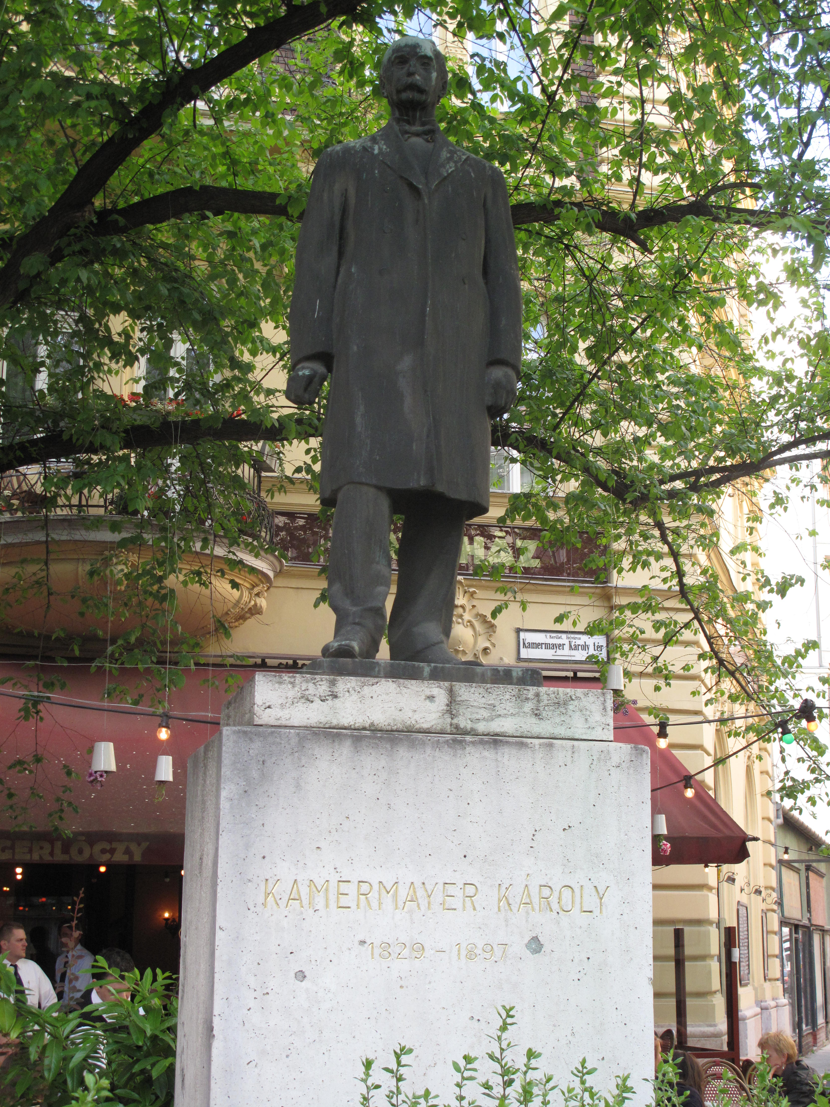 Károly Kamermayer statue in Budapest District V, Kamermayer Károly Square